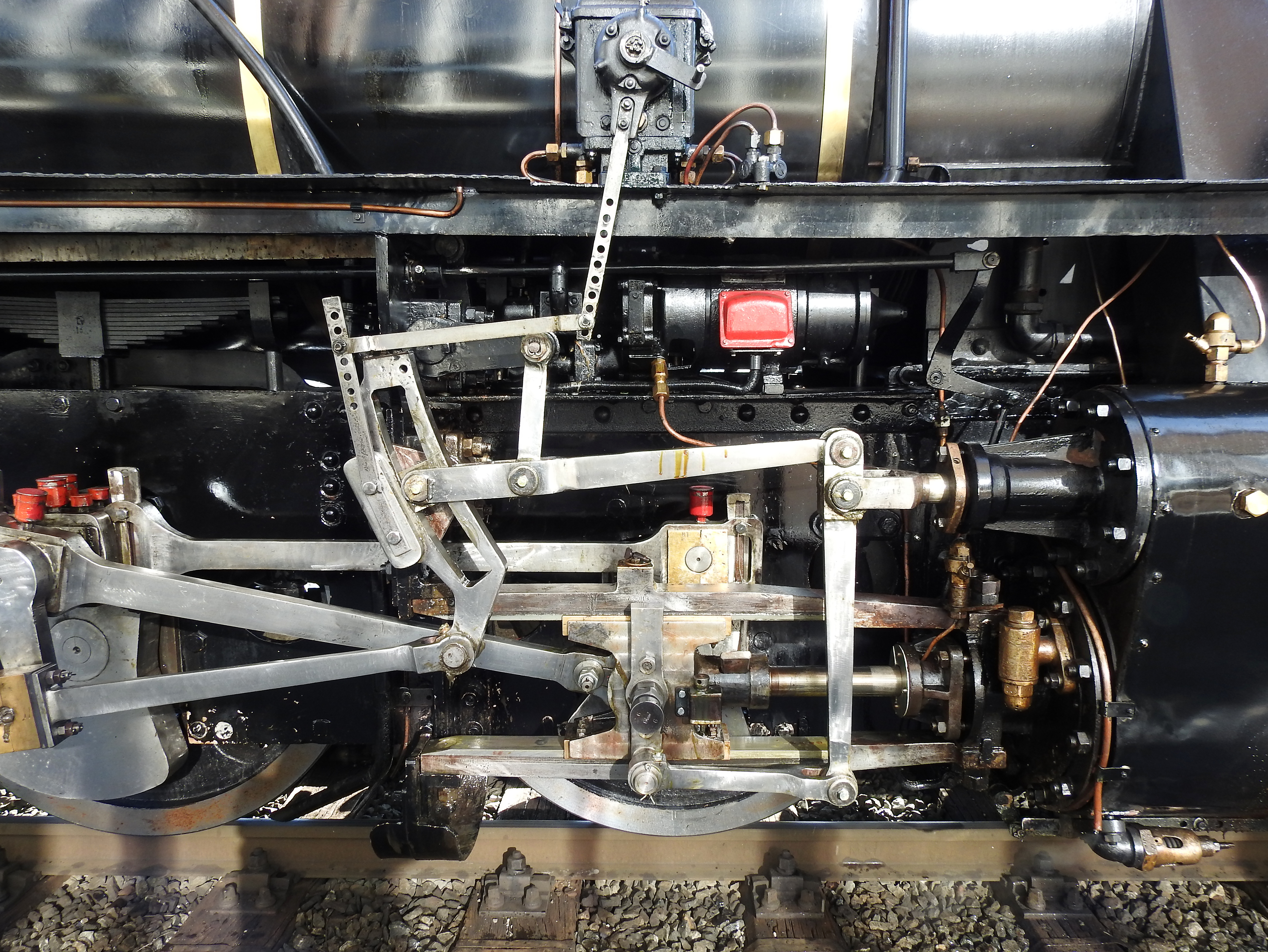 The 2-6-2 steam locomotive BHStB 169 (JŽ 73-019) was built in Budapest in 1913 and is one of the most elegant and graceful narrow gauge steam locomotives in Central Europe.